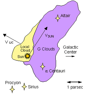 Map showing the Sun located near the edge of our local interstellar cloud (LIC) and alpha centauri about 4 light-years away in the neighboring G-Cloud. Vsun is our Sun's velocity. Vlic is the velocity of the local interstellar cloud.